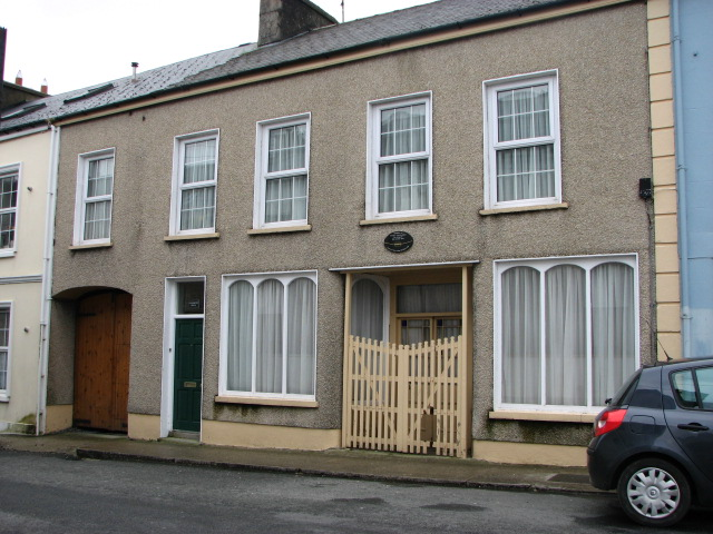 Birthplace of Dave Gallaher The birthplace of Dave Gallaher founder of the New Zealand All Blacks.